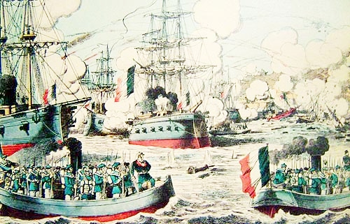 1800s illustration of French Ships firing at Qing coastal batteries at Fuzhou.